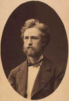 Uncas Andreas Frederik Hammeleff (1847-1916), Danish sculptor